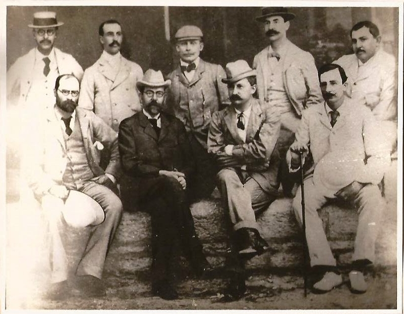 Seated: Alfred Lingard, Robert Koch, R.F. Pfeiffer, George Gaffky at the Imperial Bacteriological Laboratory, Muktesar